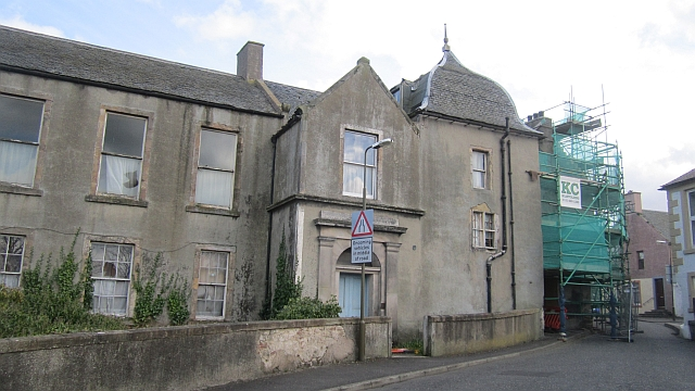 Harlaw Hill House